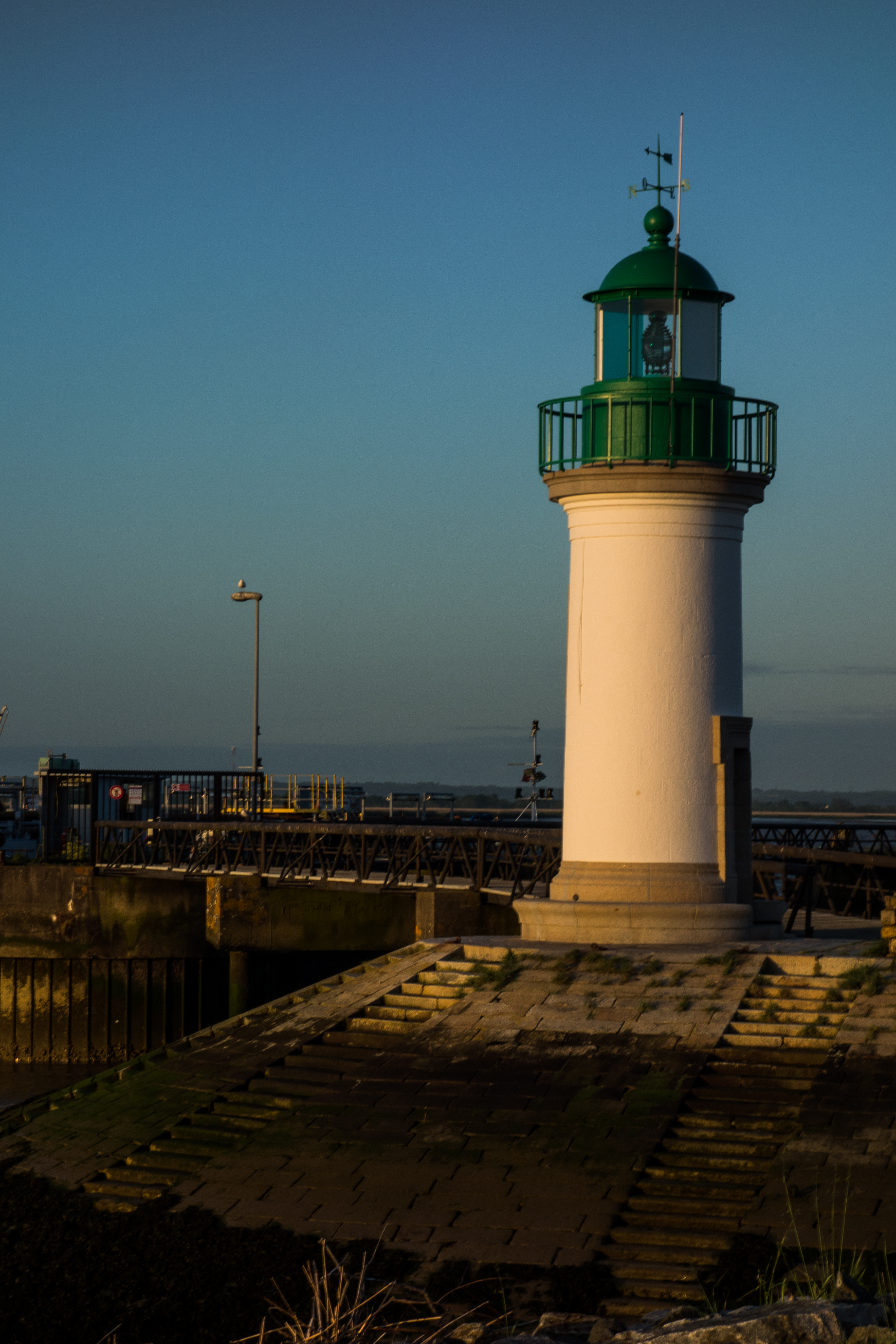 Located in the Loire estuary, more than 10 km from the coast, Paimboeuf lighthouse is the only lighthouse built on the land. It has been operating since 1855, 7,15 m high and its range is about 20 km.